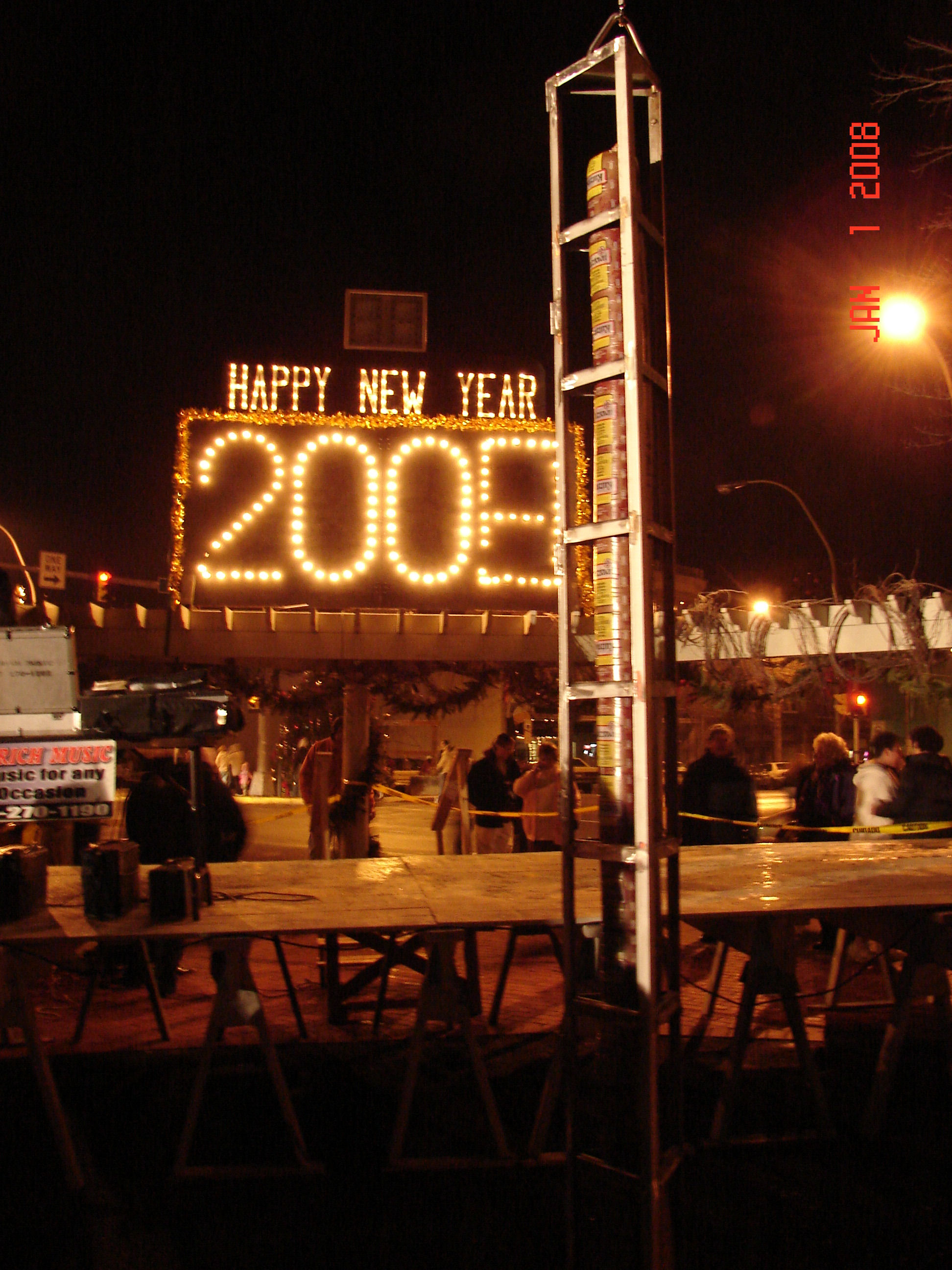 Photographer: hooahman Photo taken: 0010hrs, Tues 1 January 2008 9th & Cumberland Streets Lebanon, Pennsylvania